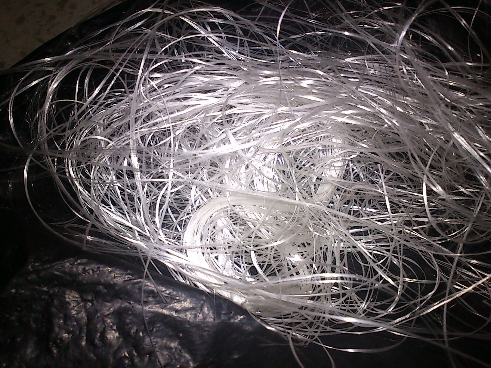 Glass fiber